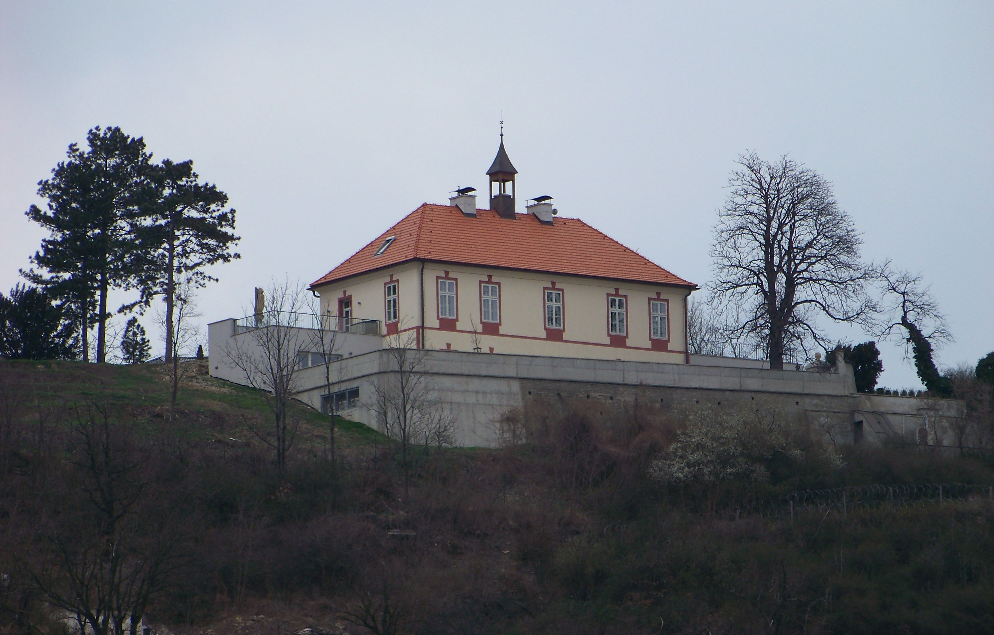 Prague-Libeň and Troja, Czech Republic. Na Jabloňce 90/1, Jabloňka house, from the Vltava bank.